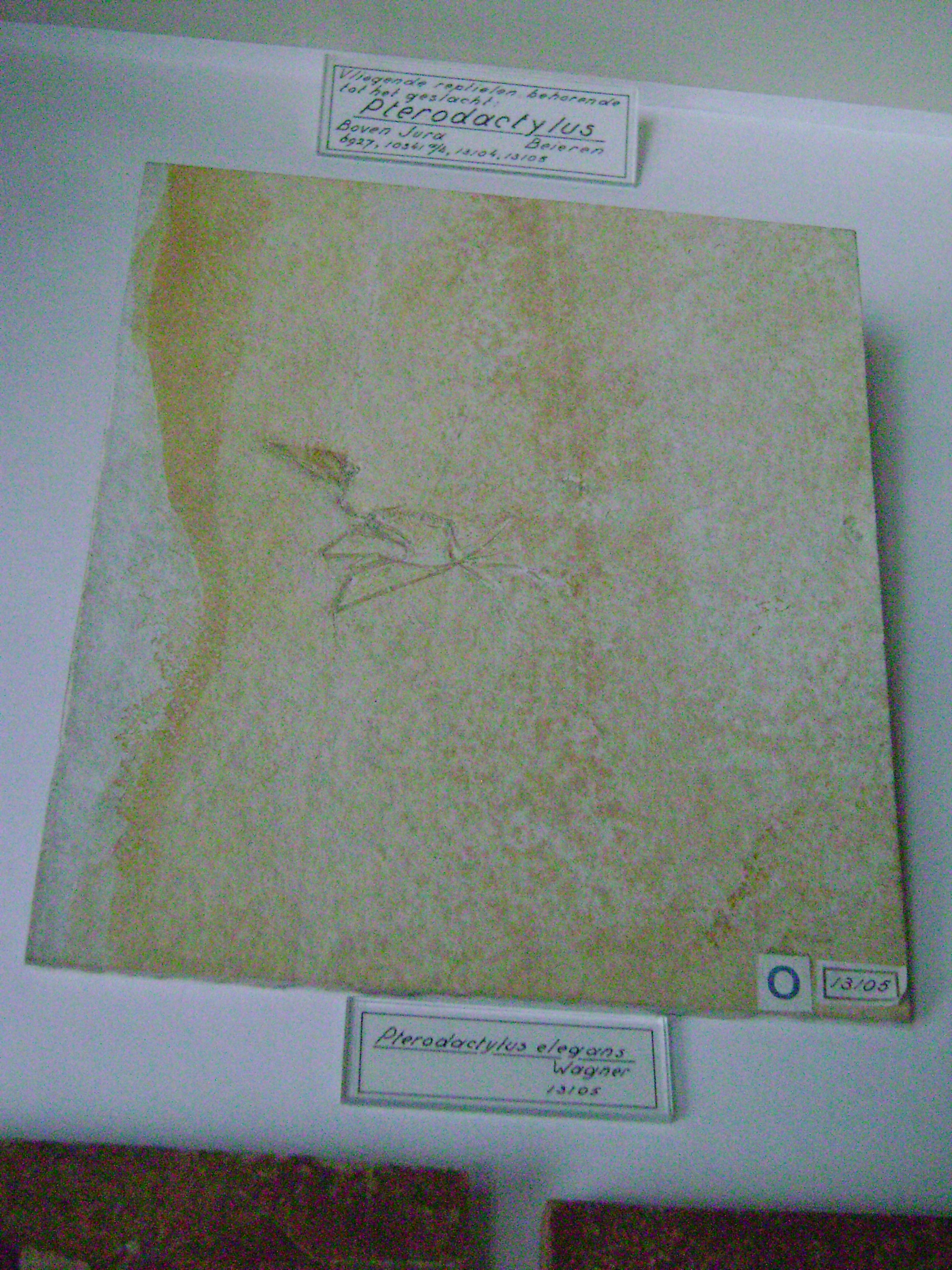 Juvenile specimen of Pterodactylus antiquus, TM 13105, in the Teylers Museum at Haarlem. Contrary to the label it is not a specimen of P. elegans